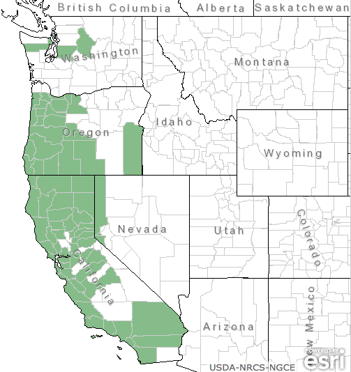 States and counties Stachys rigida are found